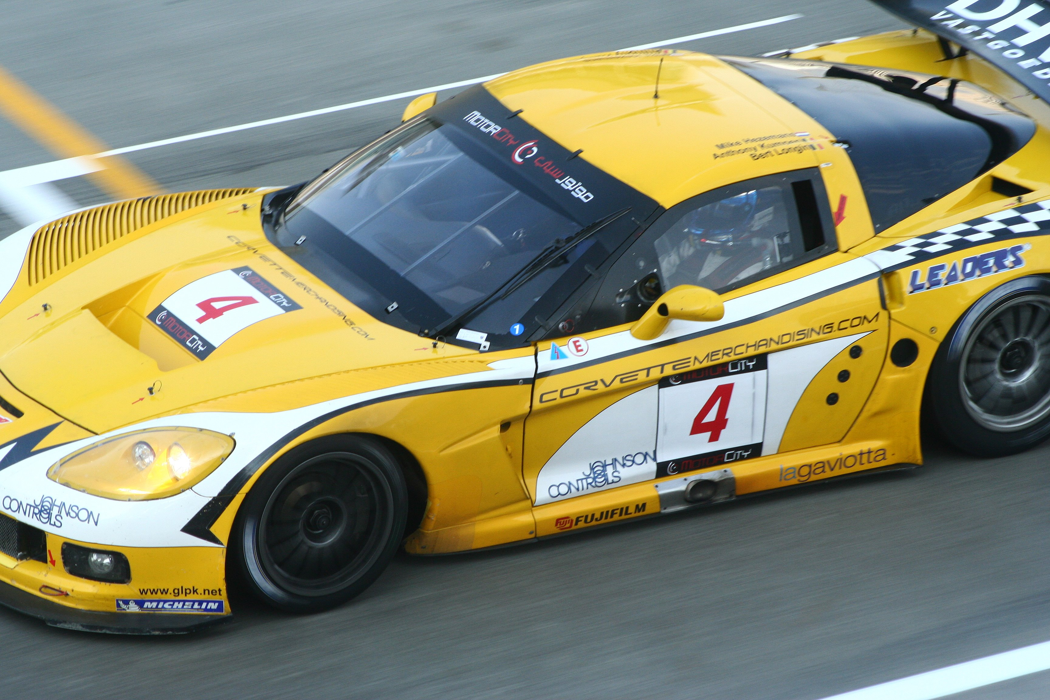 The GLPK-Carsport Corvette C6.R at the 2006 FIA GT Motorcity 500